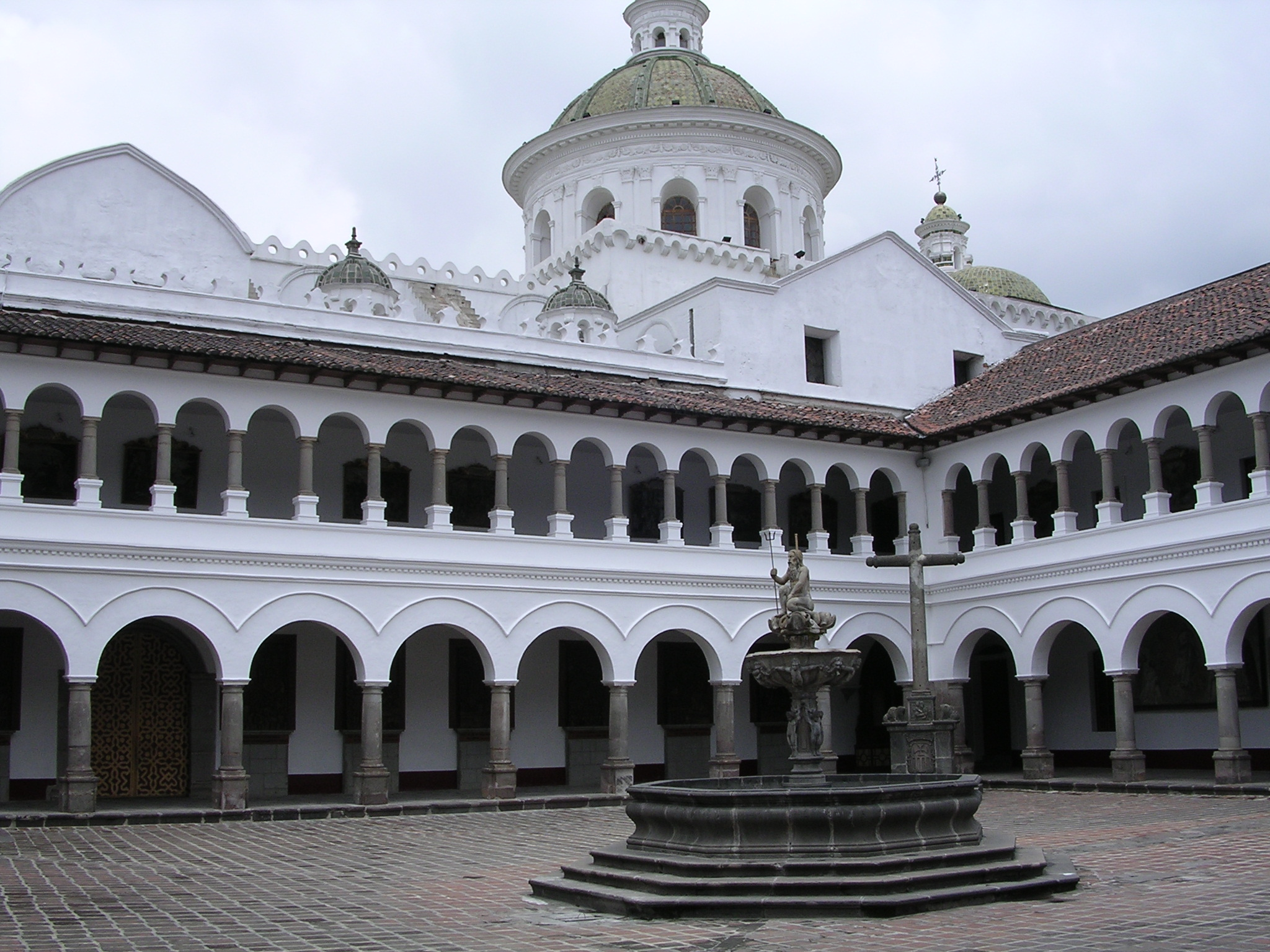 Cloister of La Merced, Quito.